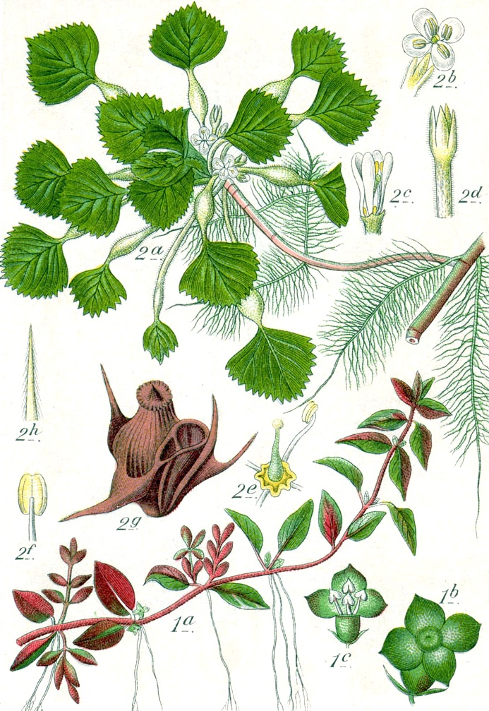 1. Ludwigia palustris (L.) Elliot 2. Trapa natans L. Original Caption 1. Isnardie, Ludwigia palustris 2. Wassernuss, Trapa natans